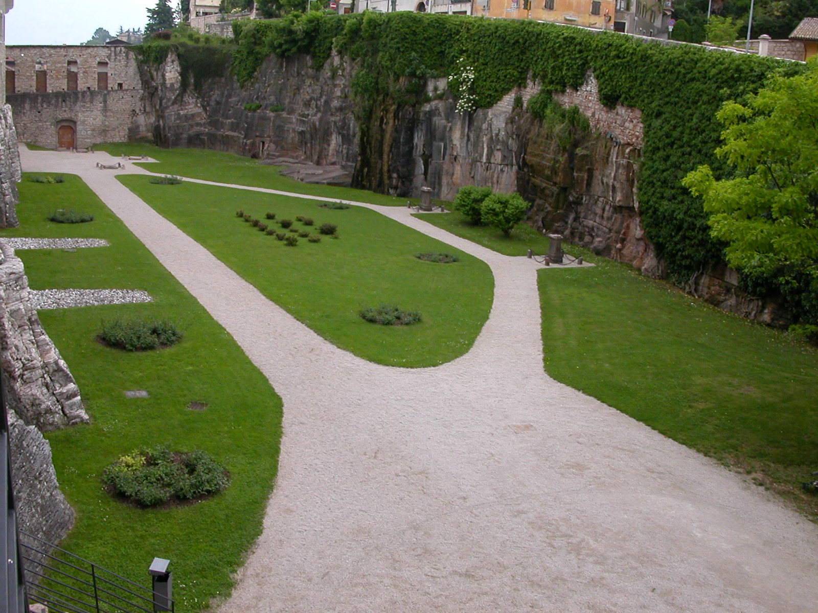 Trento - Castello del Buonconsiglio - Fossa dei Martiri. Cesare Battisti was executed here in 1916.